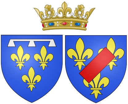 Arms of Louise Marie Adélaïde de Bourbon as Duchess of Orléans